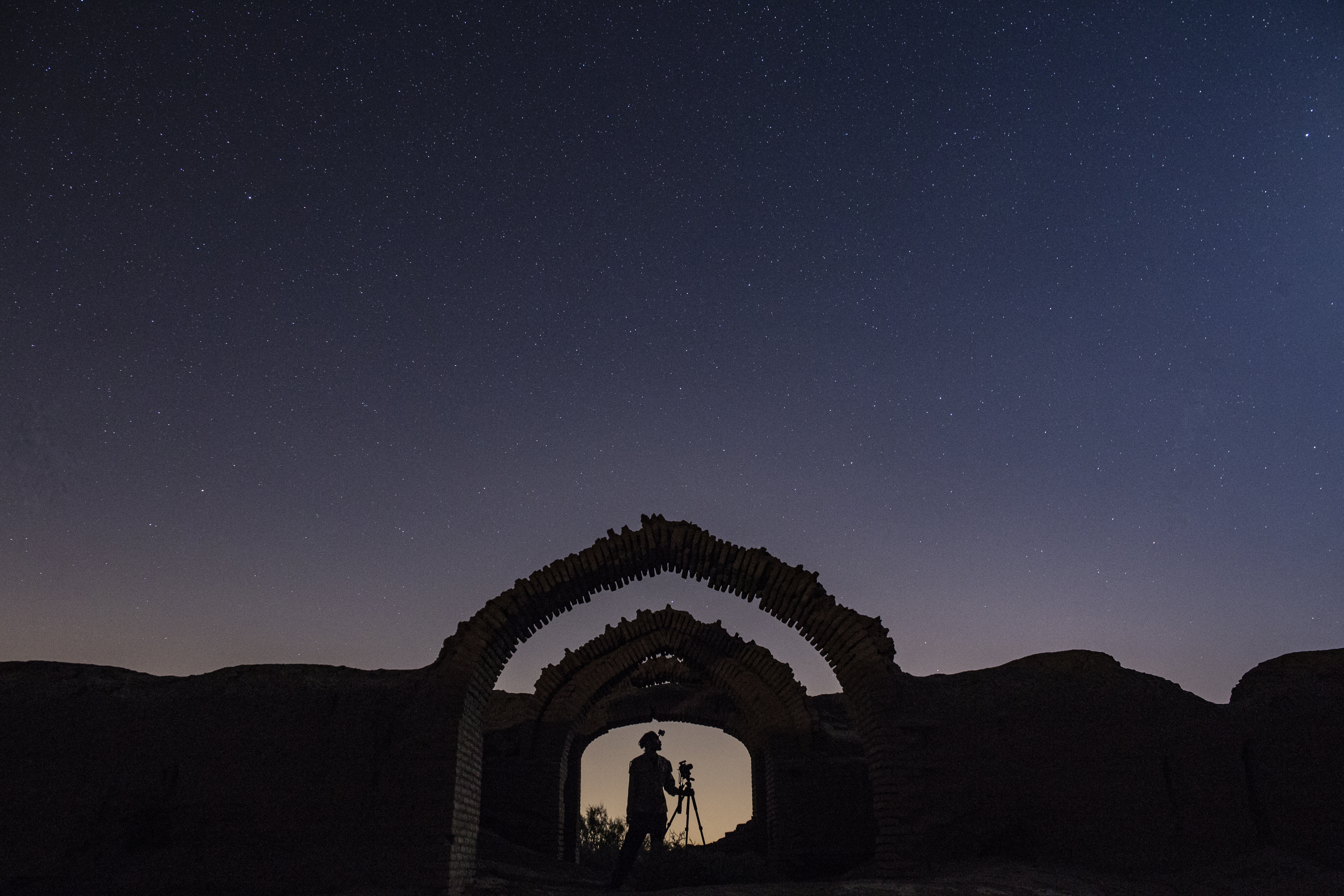 Deir-e Gachin Caravansarai is one of the greatest caravansarais of Iran which is located in the center of Kavir National Park. Its unique qualities is the reason it is called “Mother of Iranian Caravansarais”. It is located in the Central District of Qom County, 80 kilometers north-east of Qom (60 kilometers into Garmsar Freeway) and 35 kilometers south-west of Varamin. (Photo by: Mostafa Meraji, wiki loves monuments 2018)